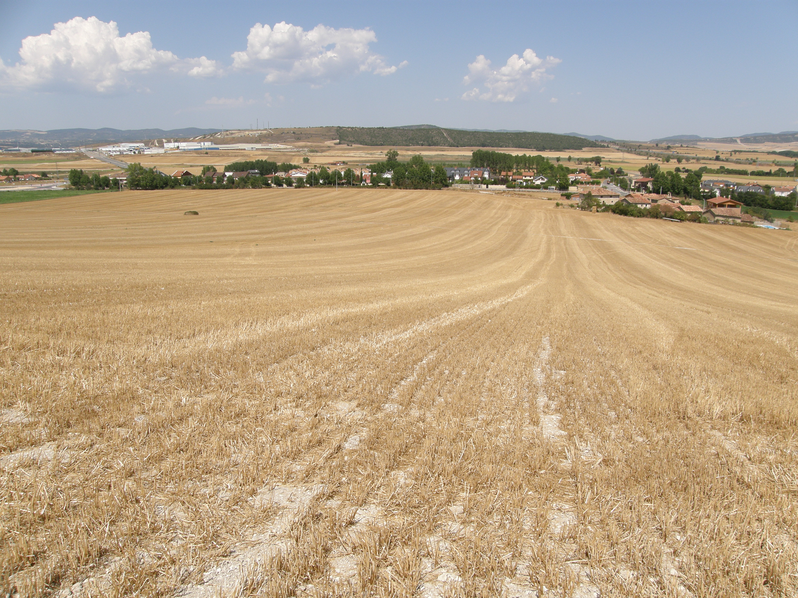 General view of Arce-Mirapérez.